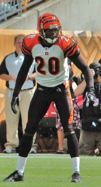 Hines Ward and Tory James in the Cincinnati Bengals vs. Pittsburgh Steelers game on Sept. 24, 2006.